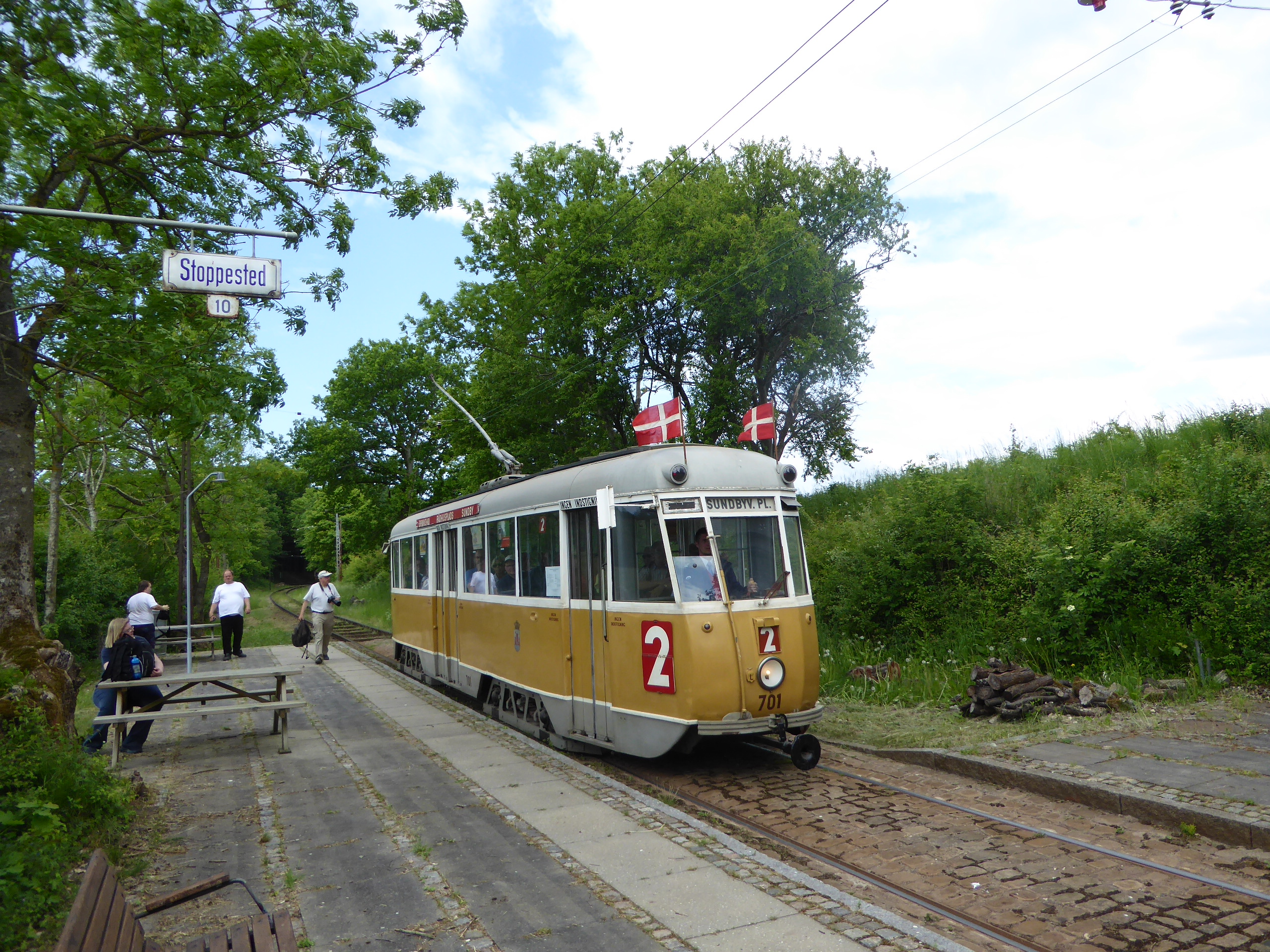 40 years anniversary of the tramway museum Sporvejsmuseet Skjoldenæsholm in Denmark. Old tram from Copenhagen, KS 701 from 1949, at Flemmingsminde. The tram is not used that much at the museum, but it took a few rounds due to the anniversary.